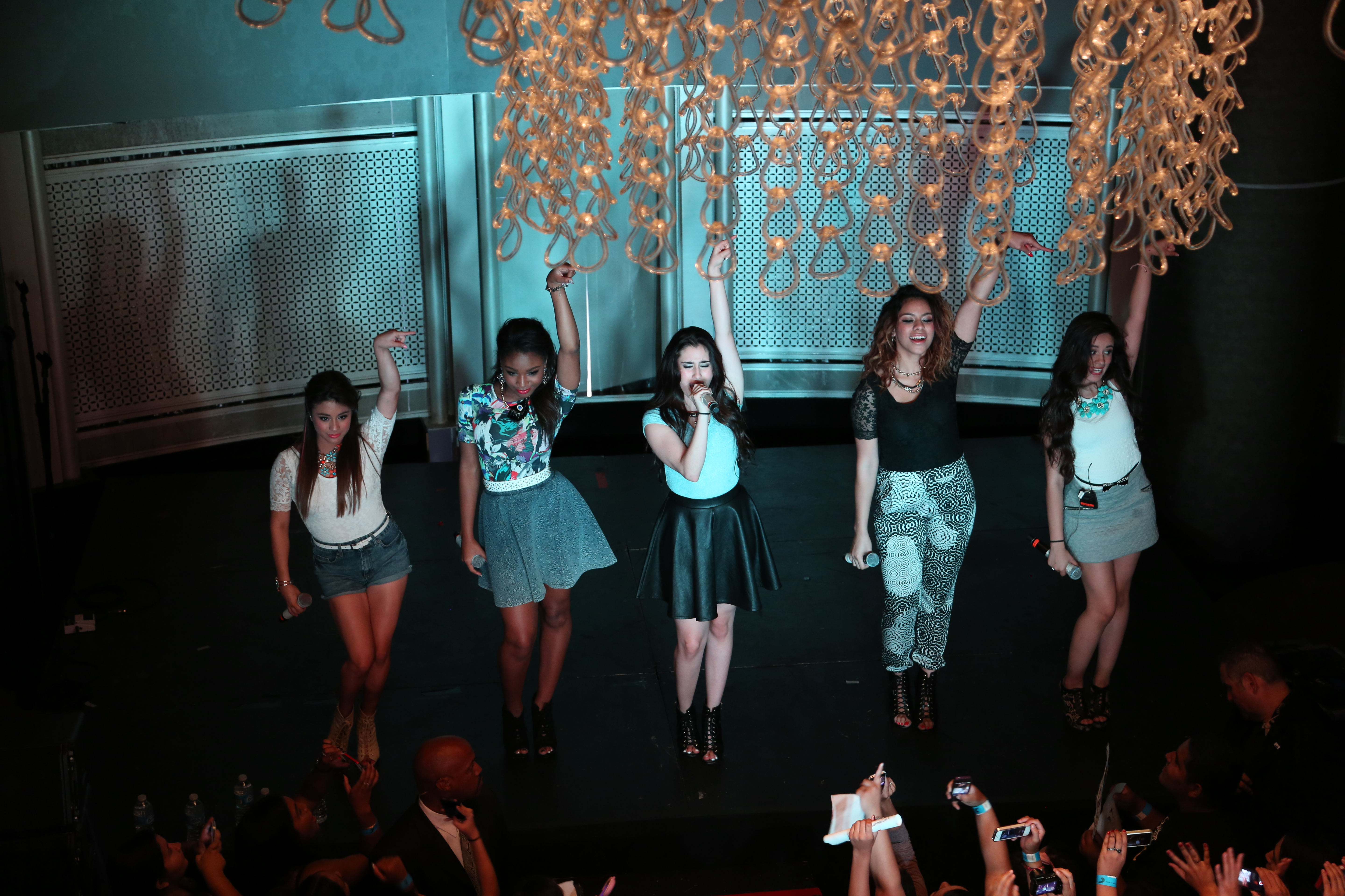 0O3A0392 Fifth Harmony at Hollywood & Highland Center